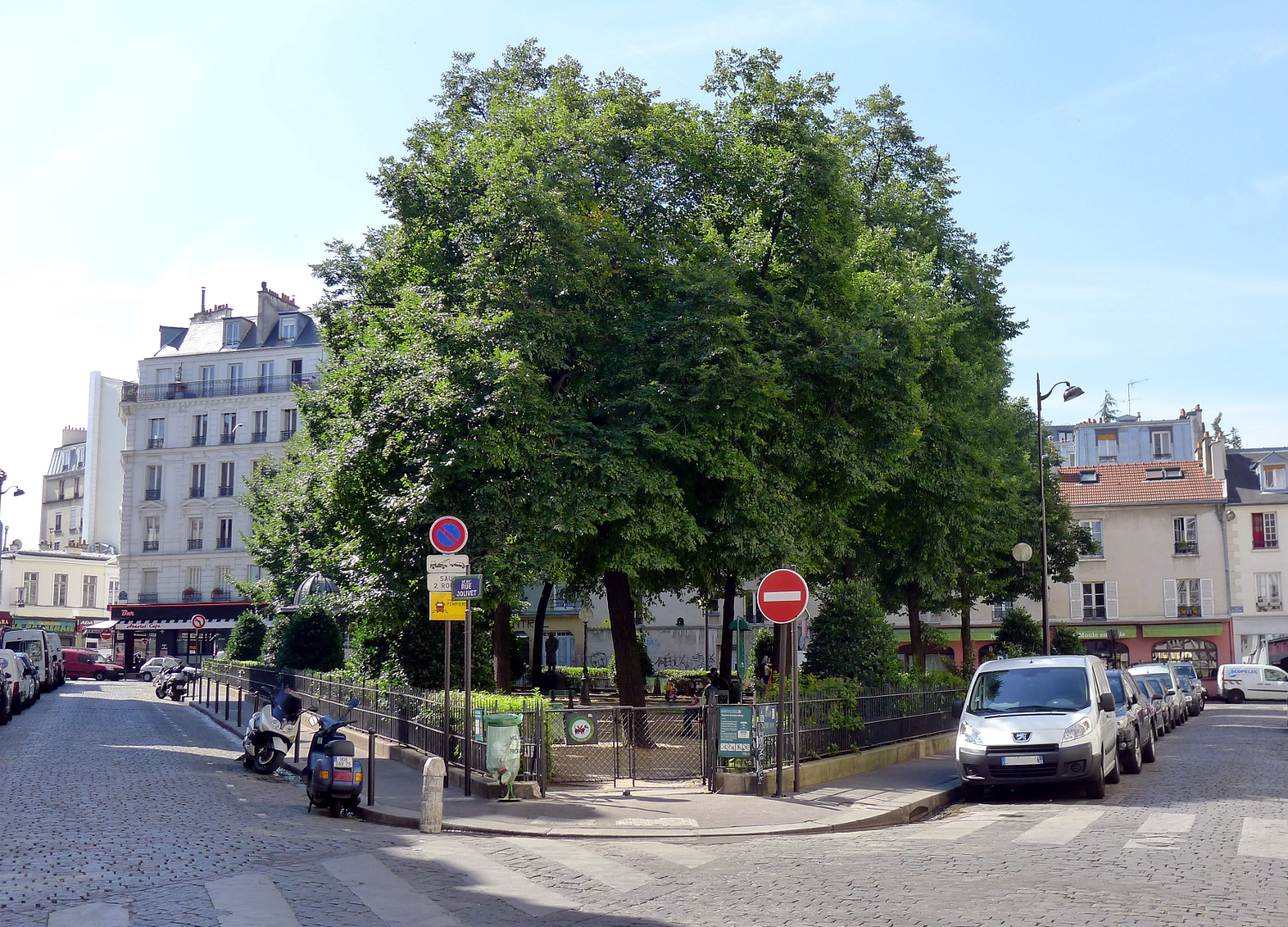 Gaston-Baty square - Paris